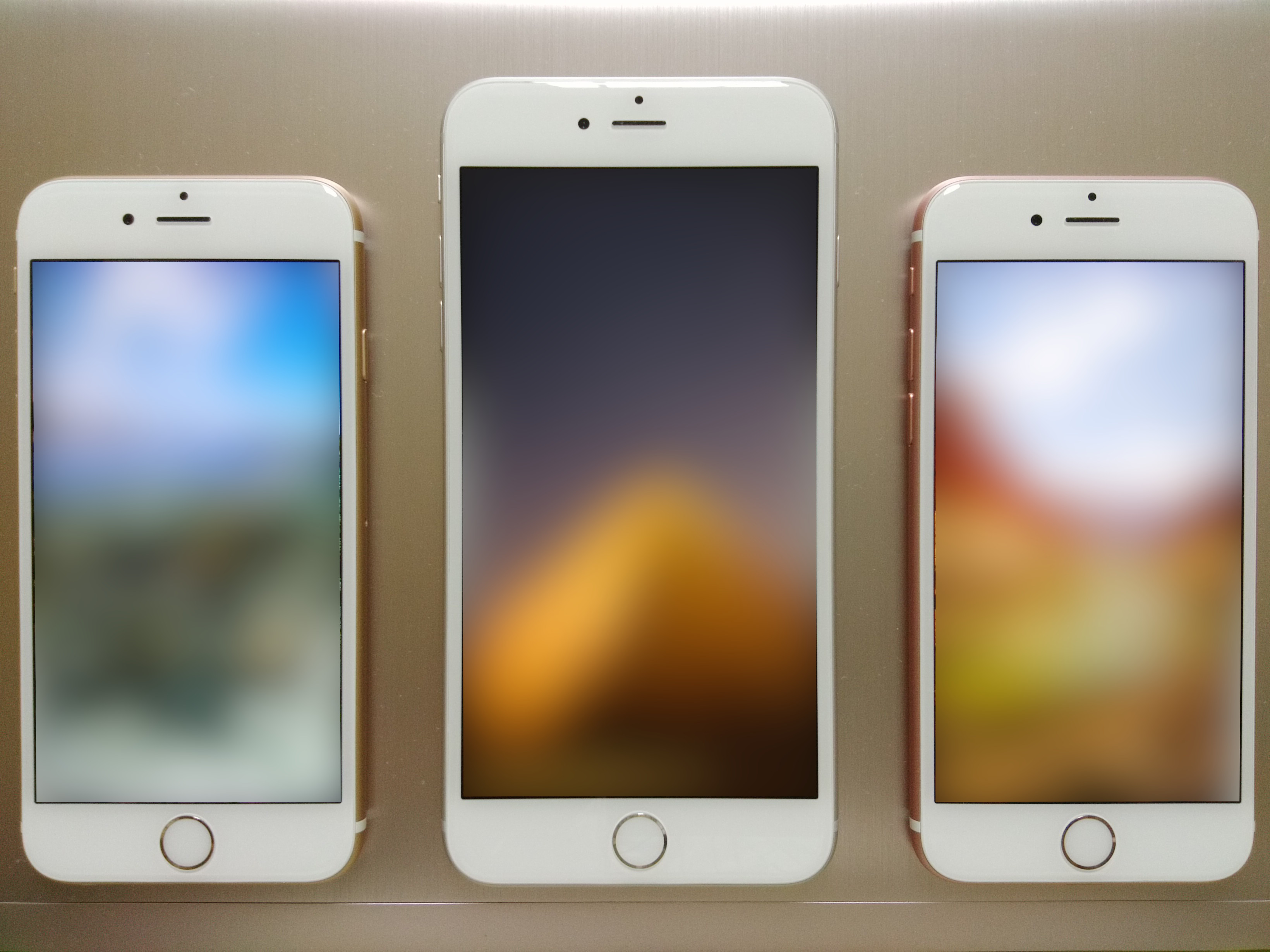 Android 6.0 default wallpapers of the iPhones, which are released under CC 2.5 Attribution. Portions of this page are reproduced from work created and shared by the Android Open Source Project and used according to terms described in the Creative Commons 2.5 Attribution License.